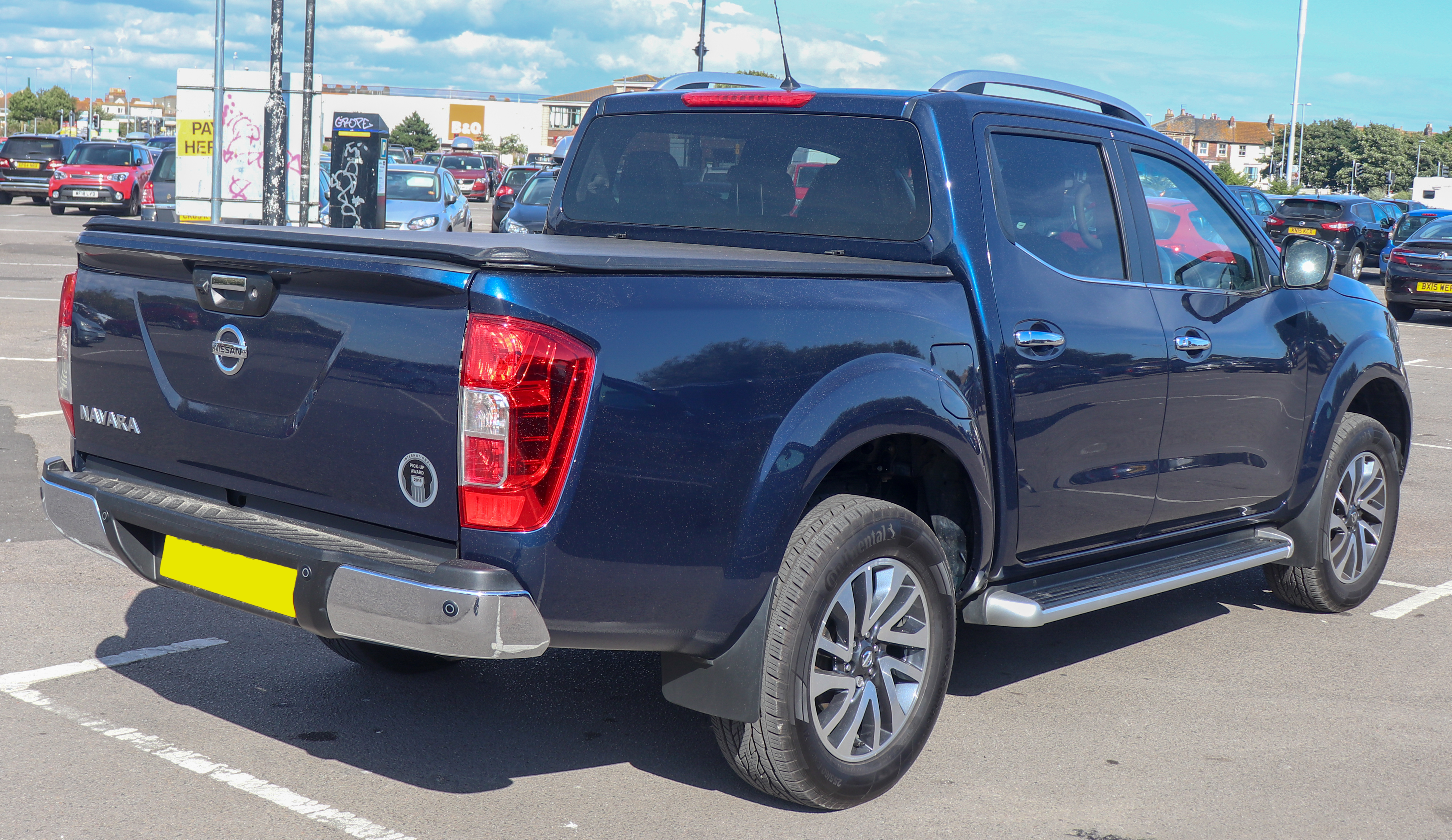 2017 Nissan Navara Tekna DCi 2.3 Rear Taken in Weymouth, Dorset